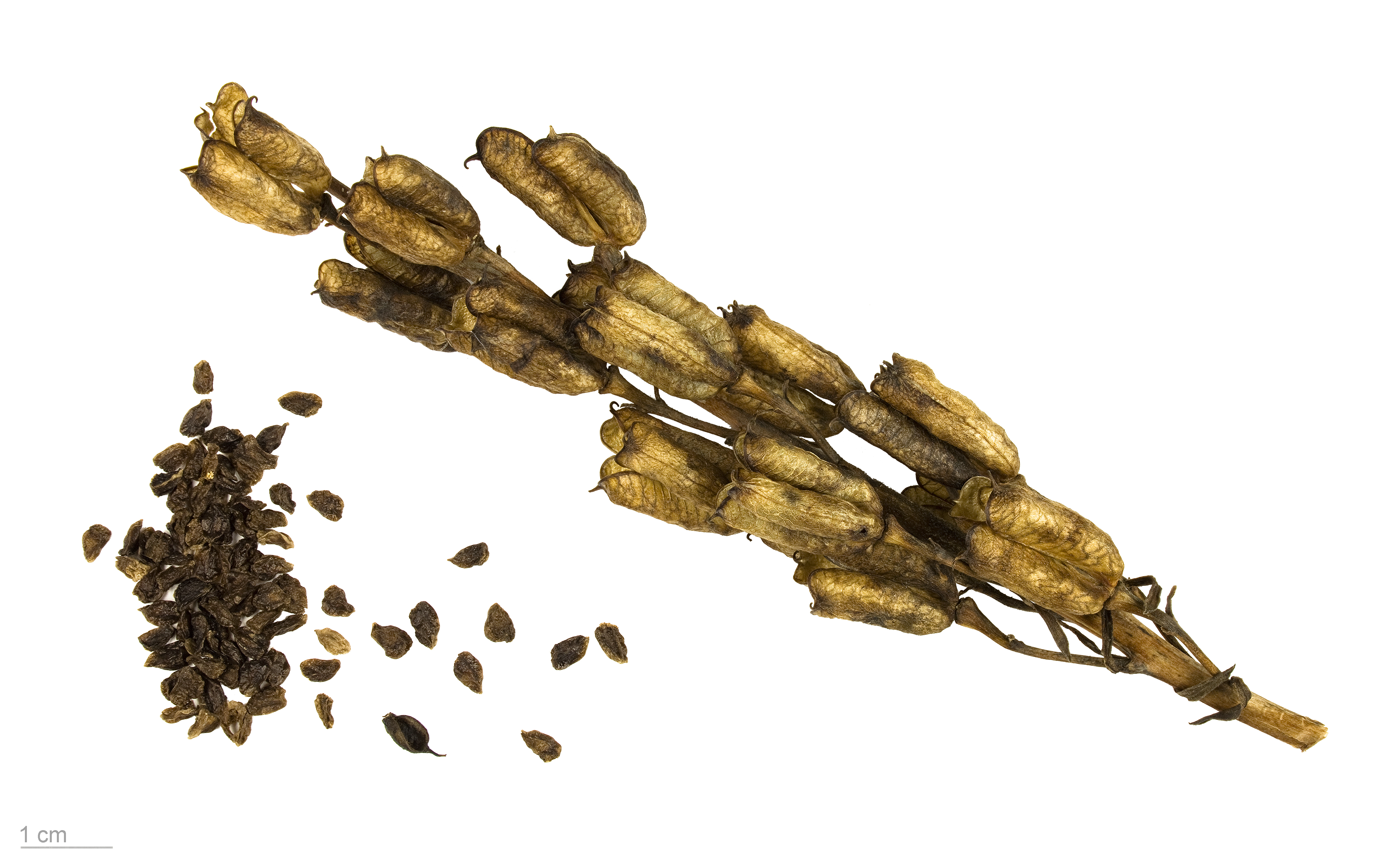 Aconitum napellus, monkshood, fruits and seeds